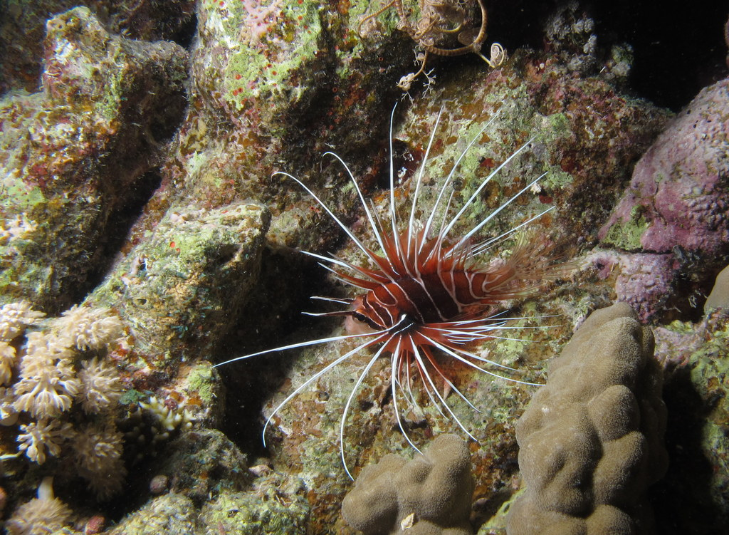 Clearfin Lionfish, Pterois radiata at Sataya Reef (night), Red Sea, Egypt #SCUBA